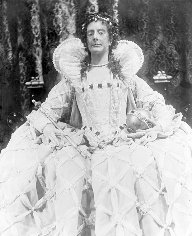 Promotional photograph of Lynn Fontanne in the Broadway production of Elizabeth the Queen Caption reads as follows: Lynn Fontanne, a superb Elizabeth in the Theatre Guild's splendid production of Maxwell Anderson's "Elizabeth the Queen"